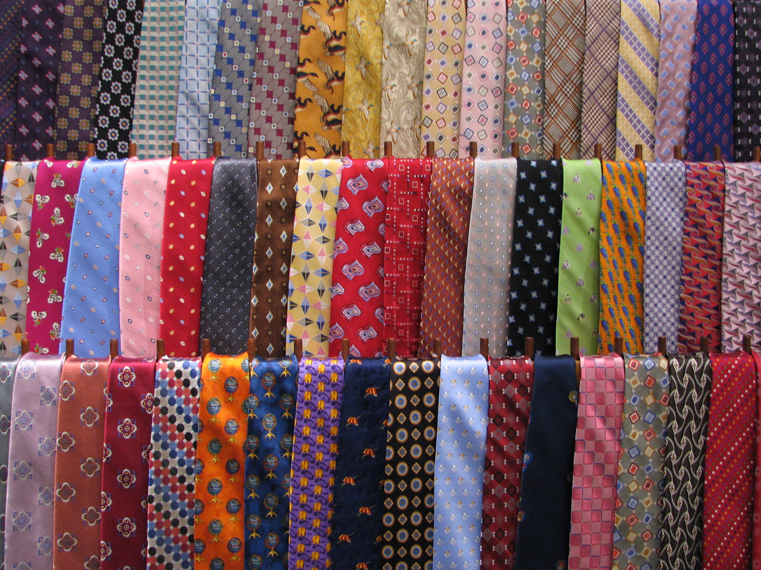 A display in “Classic Cravats” in Williamsburg, Virginia.